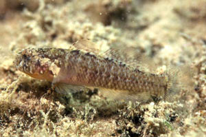 picture of Millerigobius macrocephalus